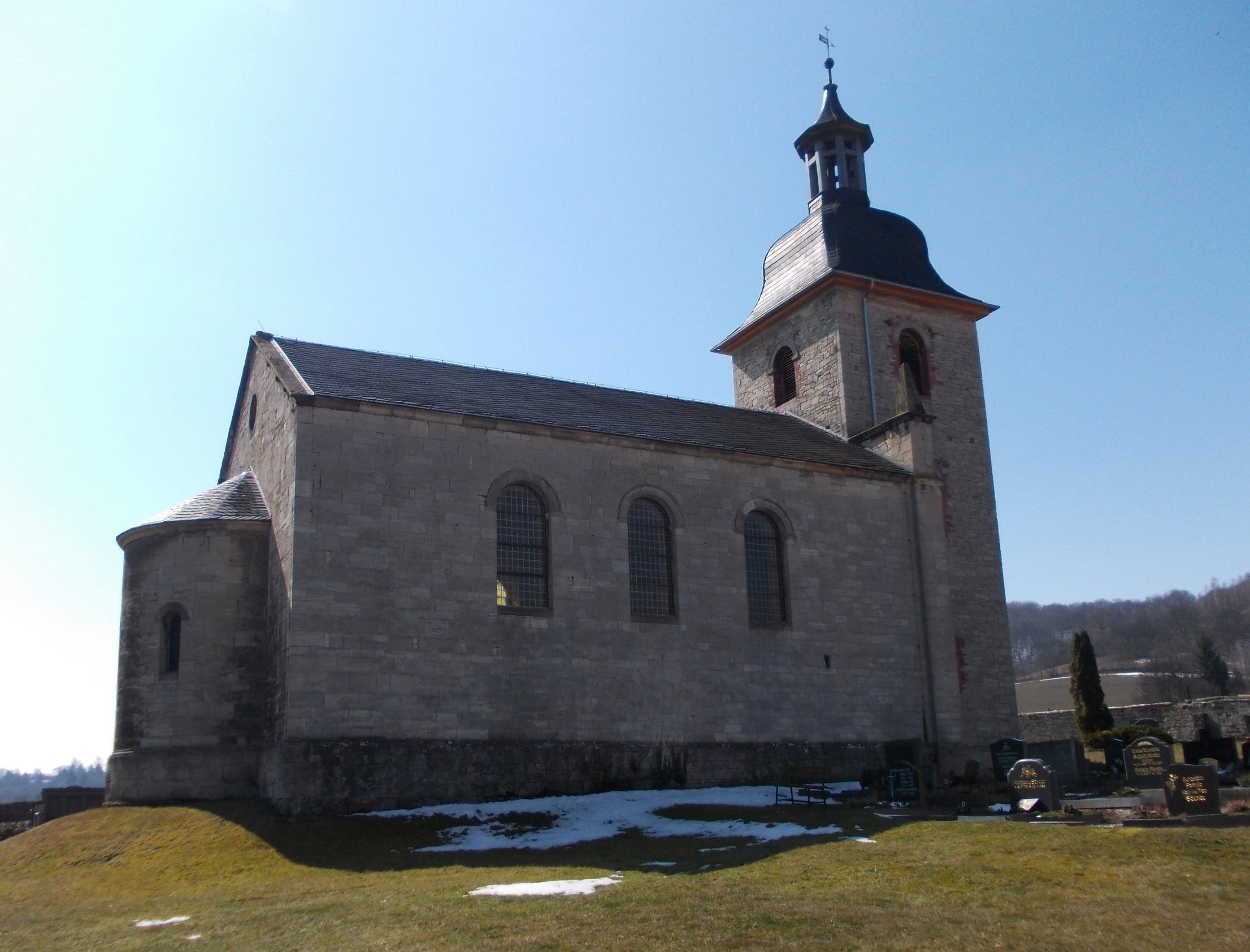 Nissmitz church (Freyburg/Unsrut, district of Burgenlandkreis, Saxony-Anhalt)